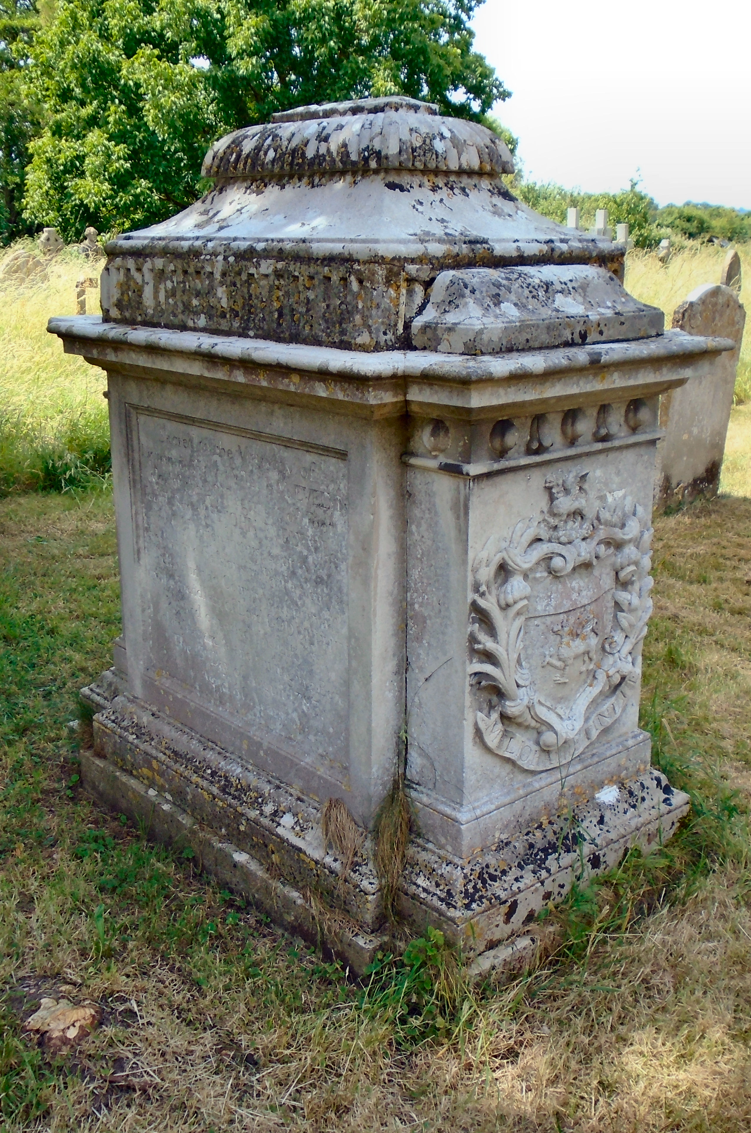 St Mary the Virgin Church, Send, tomb of William Evelyn, d 1785